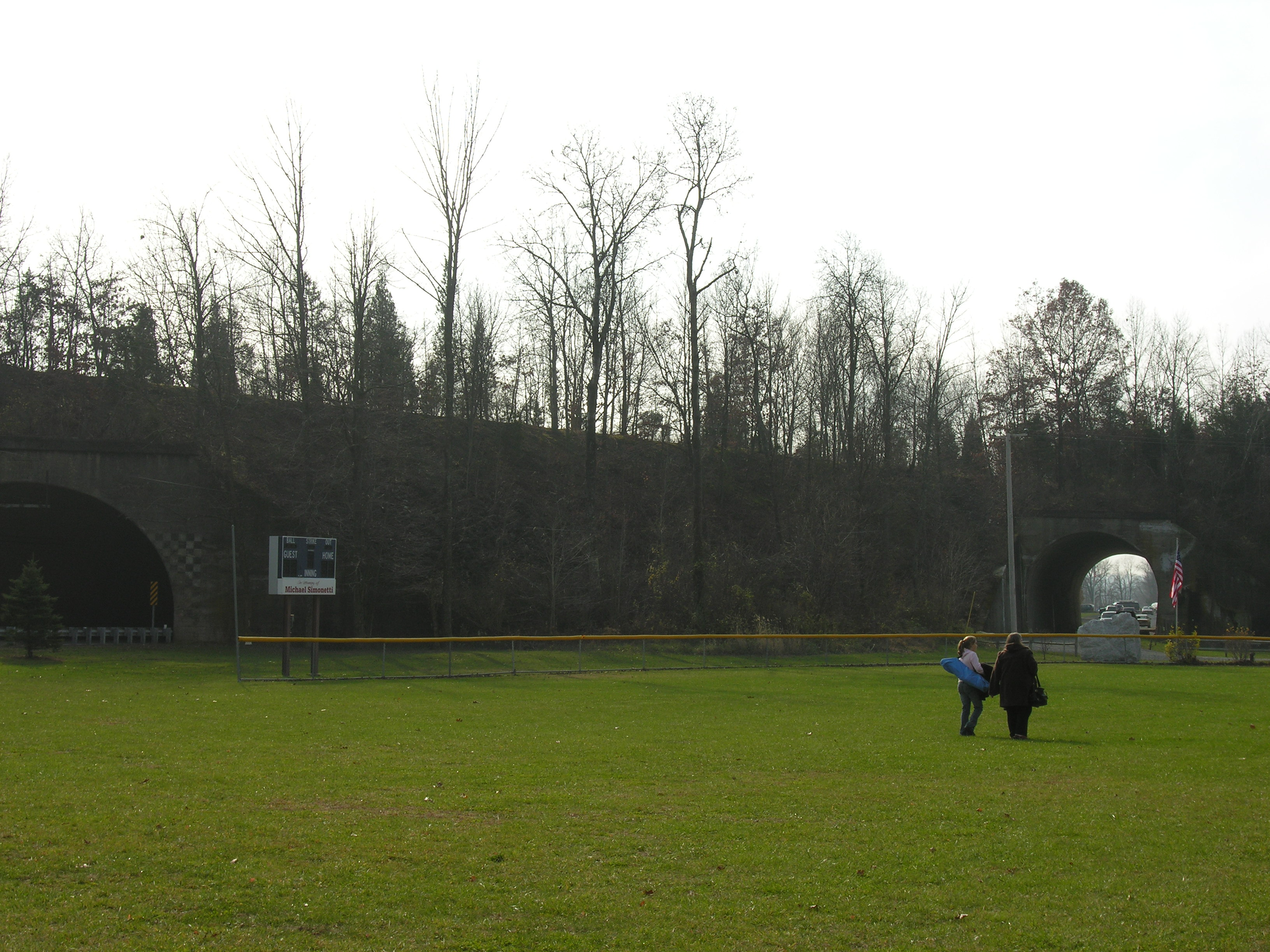 Lehigh and New England RR right-of-way, Knowlton, NJ, November 10, 2006. The never-used tunnel for the Lehigh & New England Railroad is on the right of this photo, as seen from Tunnel Field in Knowlton Township, NJ. The tunnel for NJ Route 94 is on the left. The Lackawanna Cut-Off is atop the embankment.